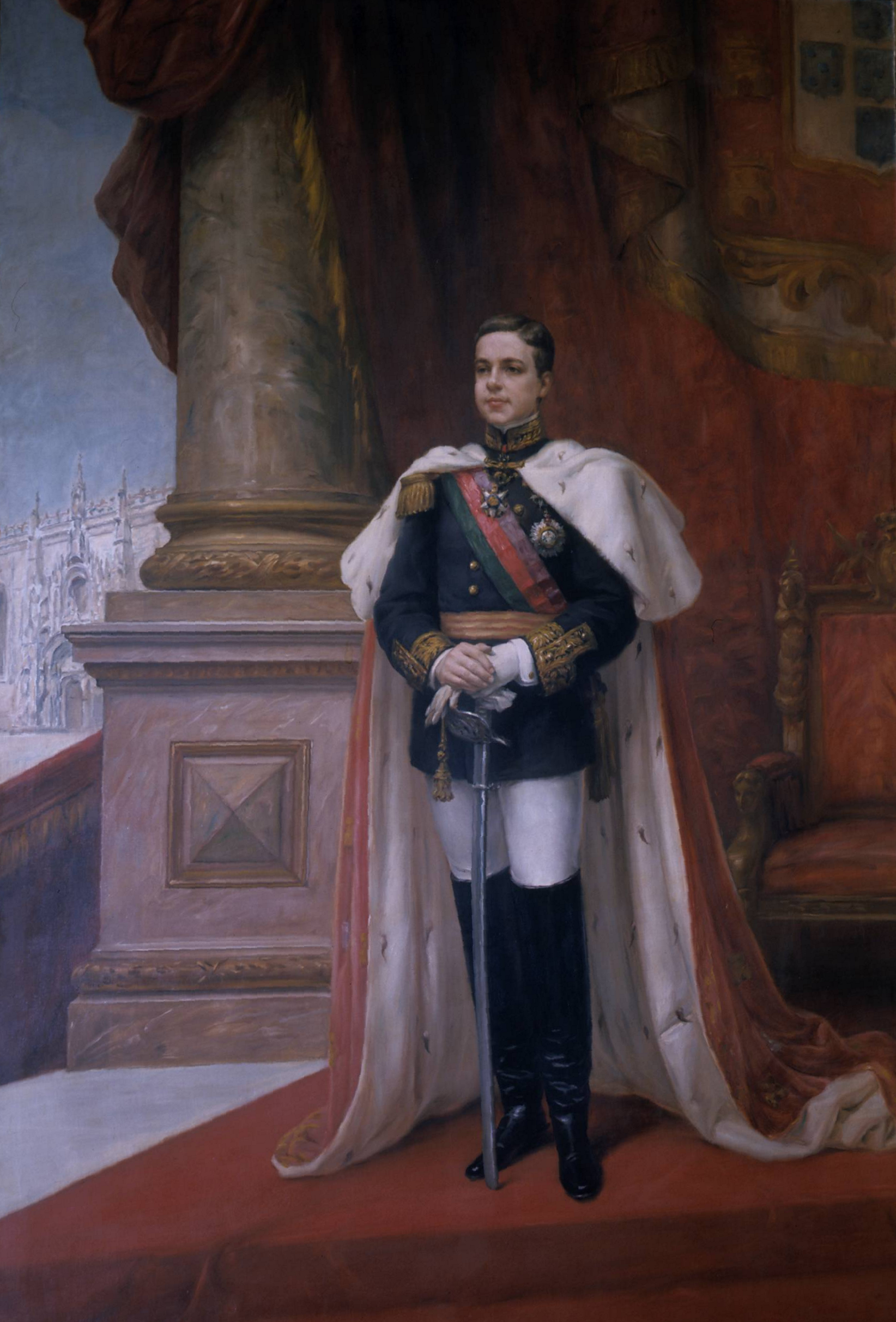 Portrait of King Manuel II of Portugal, in Lisbon Town Hall (1908), by Veloso Salgado.